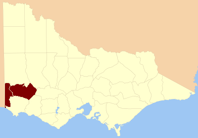 Dundas and Follett district of the Victorian Legislative Assembly, 1856–1865